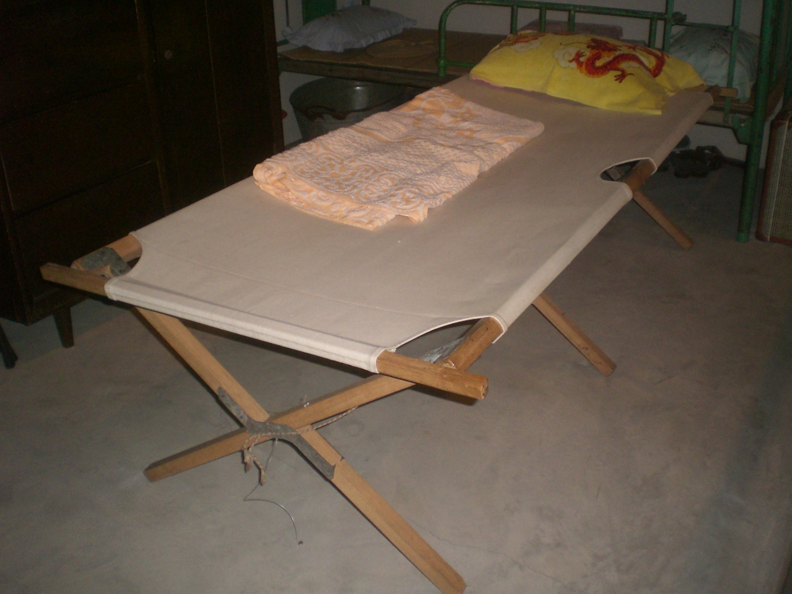 Camp bed in the Hongkong Museum of History